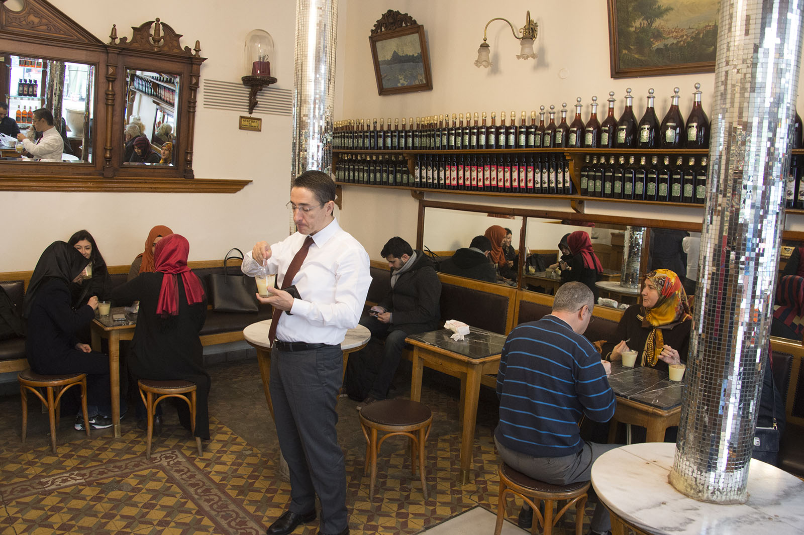 From the Wikipedia article: In 1876, brothers Haci Ibrahim and Haci Sadik established a boza shop in the Istanbul district of Vefa, close to the then center of entertainment, Direklerarası. This boza, with its thick consistency and tart flavor, became famous throughout the city, and is the only boza shop dating from that period still in business today. The firm is now run by Haci Sadik and Haci Ibrahim's great-great-grandchildren.